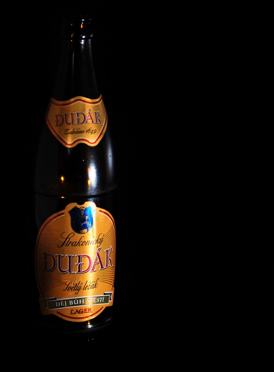 Strakonicky Dudak - beer brewed in town of Strakonice (Czech republic)